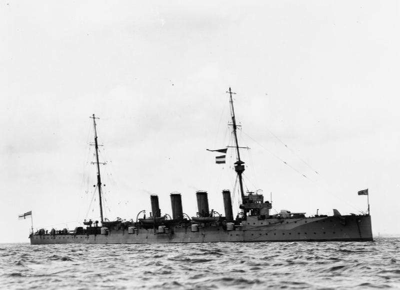 British light cruiser HMS NEWCASTLE.